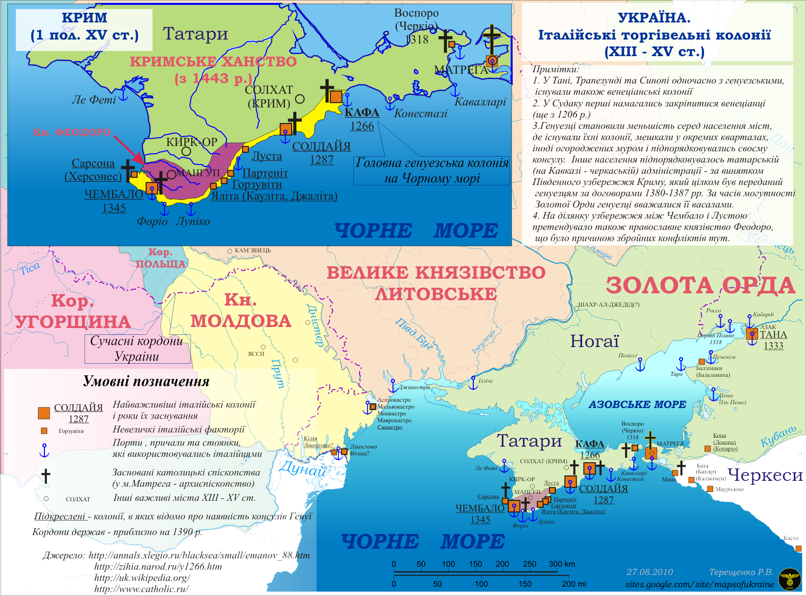 Italian colony of Northern Black